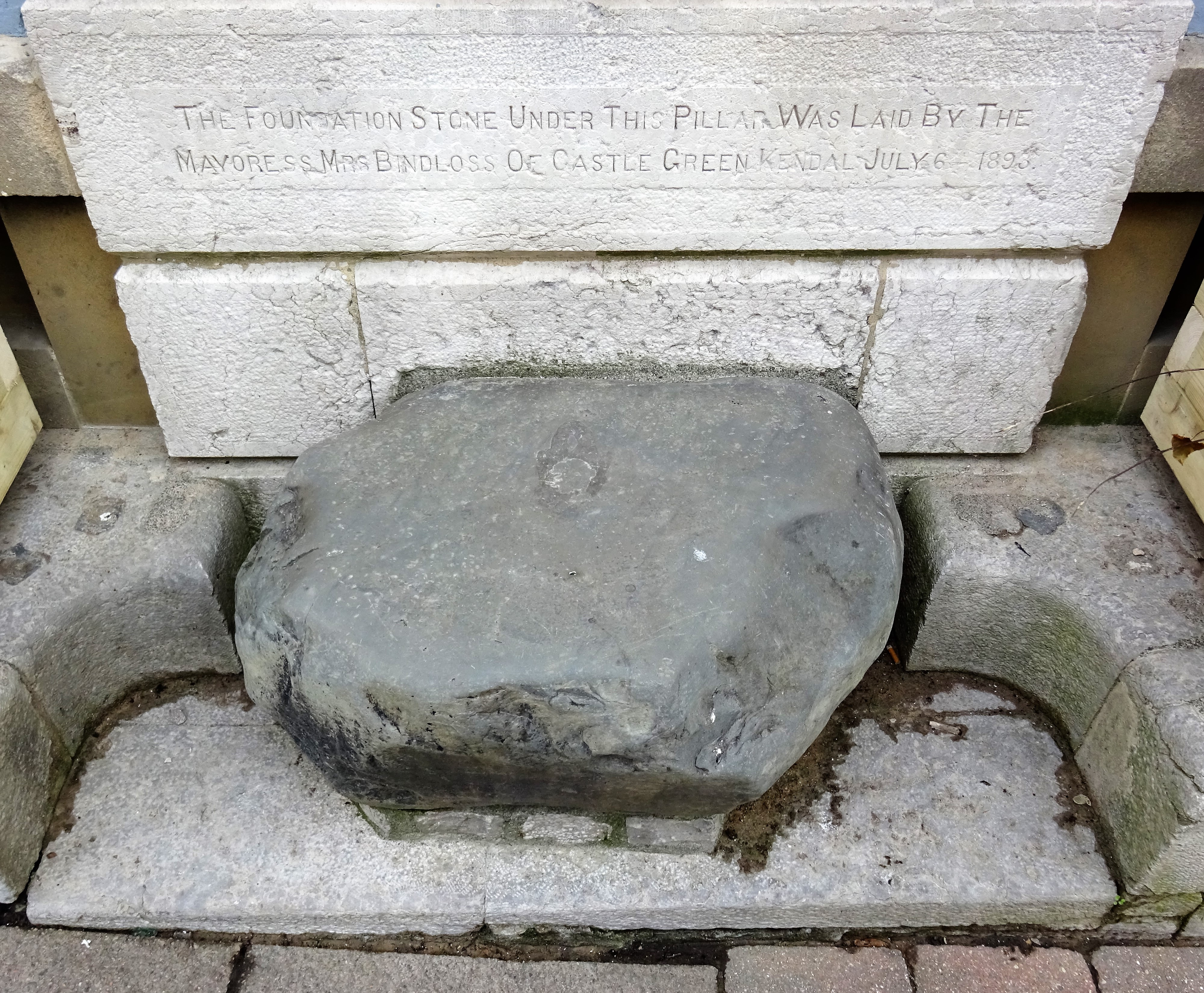 The Ca' Steean, Kendal, Cumbria. Cauld Stone or Calling Stone, the Cold Stean or the Coall Stone stands in front of Kendal Town Hall. It is possibly all that remains of Kendal's old market cross. It may also be a 'Charter Stone'.